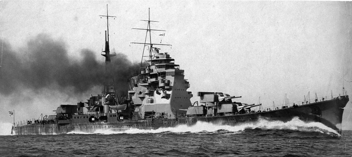 Takao, heavy cruiser of the Imperial Japanese Navy, on trial run at full speed off Tateyama, mouth of Tokyo Bay.